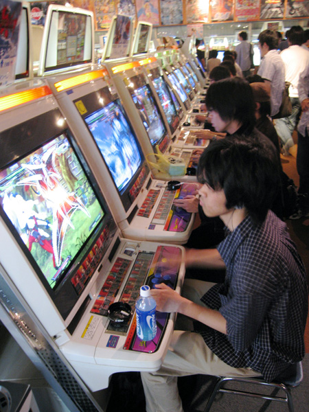 Arcade fighting games